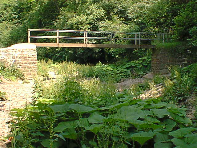 Footbridge Over a Dry River Manifold, near to Grindon, Staffordshire, Great Britain.